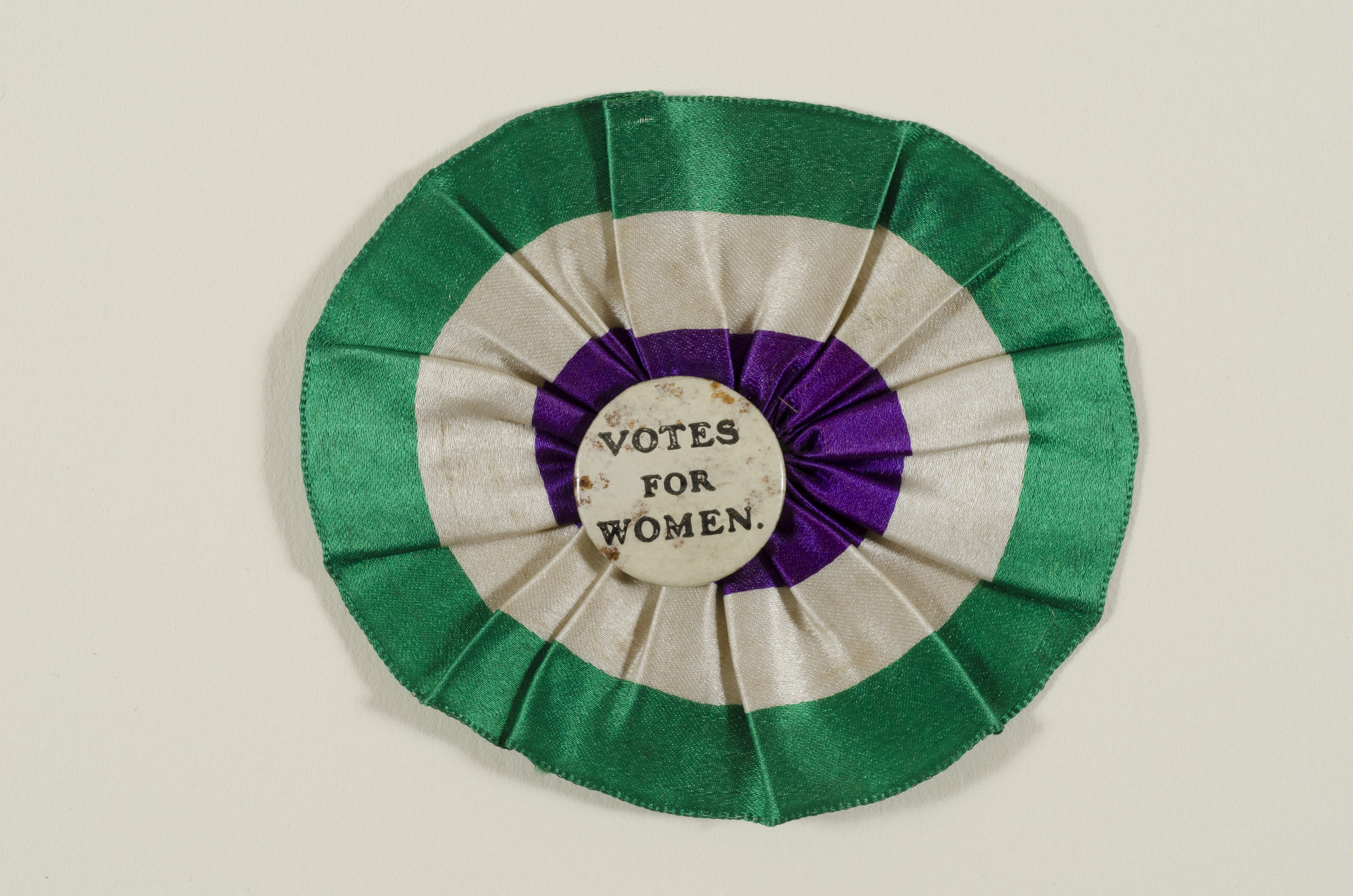 7EWD/M/19aRosette, silk, made from ribbon as described in 7EWD/M/18, white, green, purple, with button badge at centre. The badge is enamel, white with black inscription 'Votes for Women' produced by the Women's Social & Political Union (WSPU).